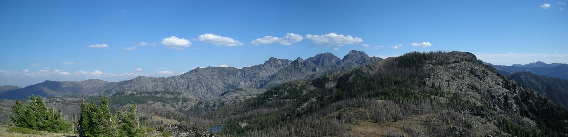 The Seven Devils from Dry Diggins Lookout in the Summer of 2007.